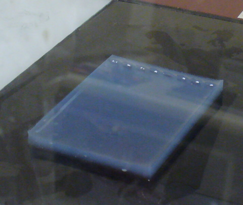 Agarose gel following agarose gel electrophoresis without UV light. Only the dyes were visible, difficult to see in this photo. Gel from a research project on hepatitis B virus Regulatory genomics research group at the University of Otago [1]